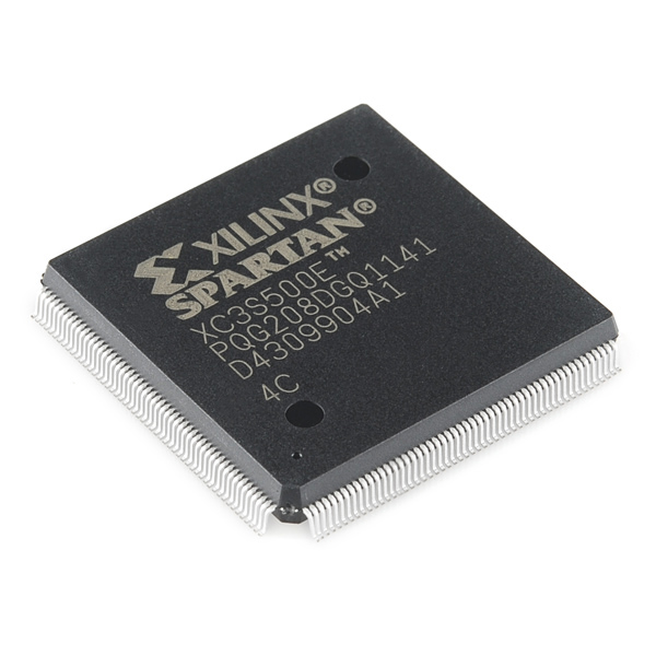 The Spartan-3 platform was the industry’s first 90nm FPGA, delivering more functionality and bandwidth per dollar than was previously possible, setting new standards in the programmable logic industry. The Spartan-3E platform builds on the success of the earlier Spartan-3 platform by adding new features that improve system performance and reduce the cost of configuration. Because of their exceptionally low cost, Spartan-3 generation FPGAs are ideally suited to a wide range of consumer electronics applications, including broadband access, home networking, display/projection, and digital television equipment.